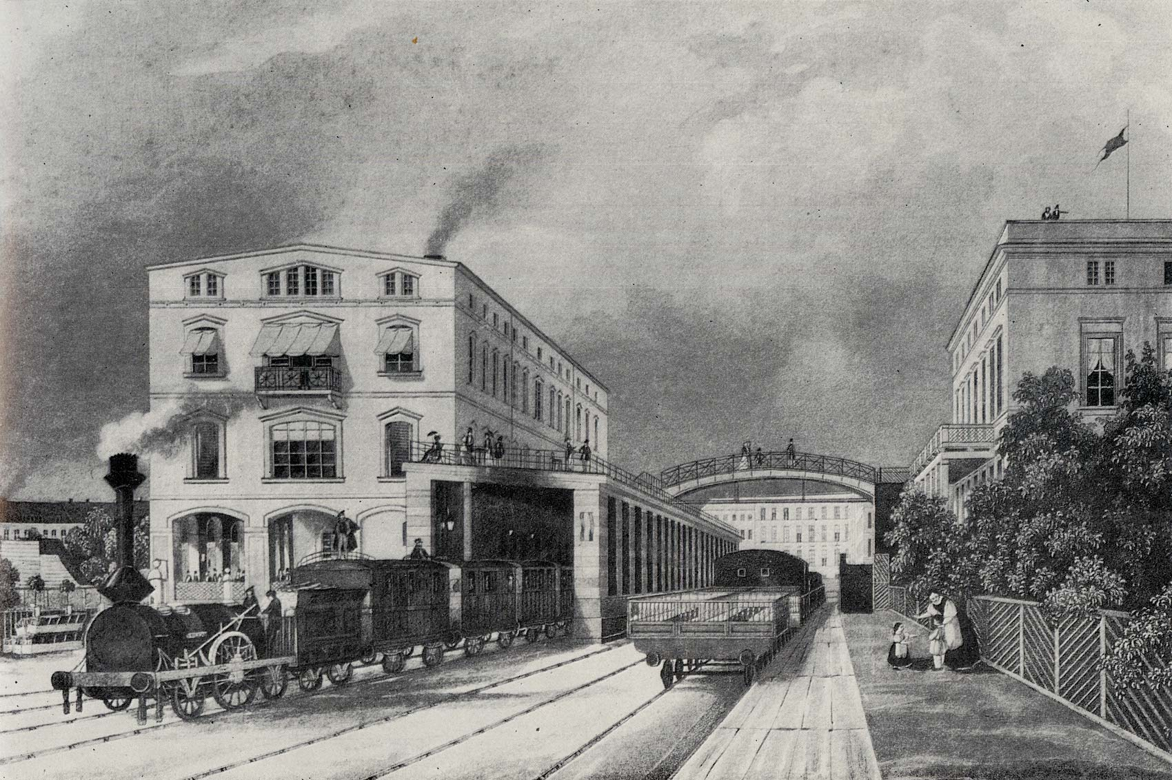 Train station Potsdamer Bahnhof in Berlin